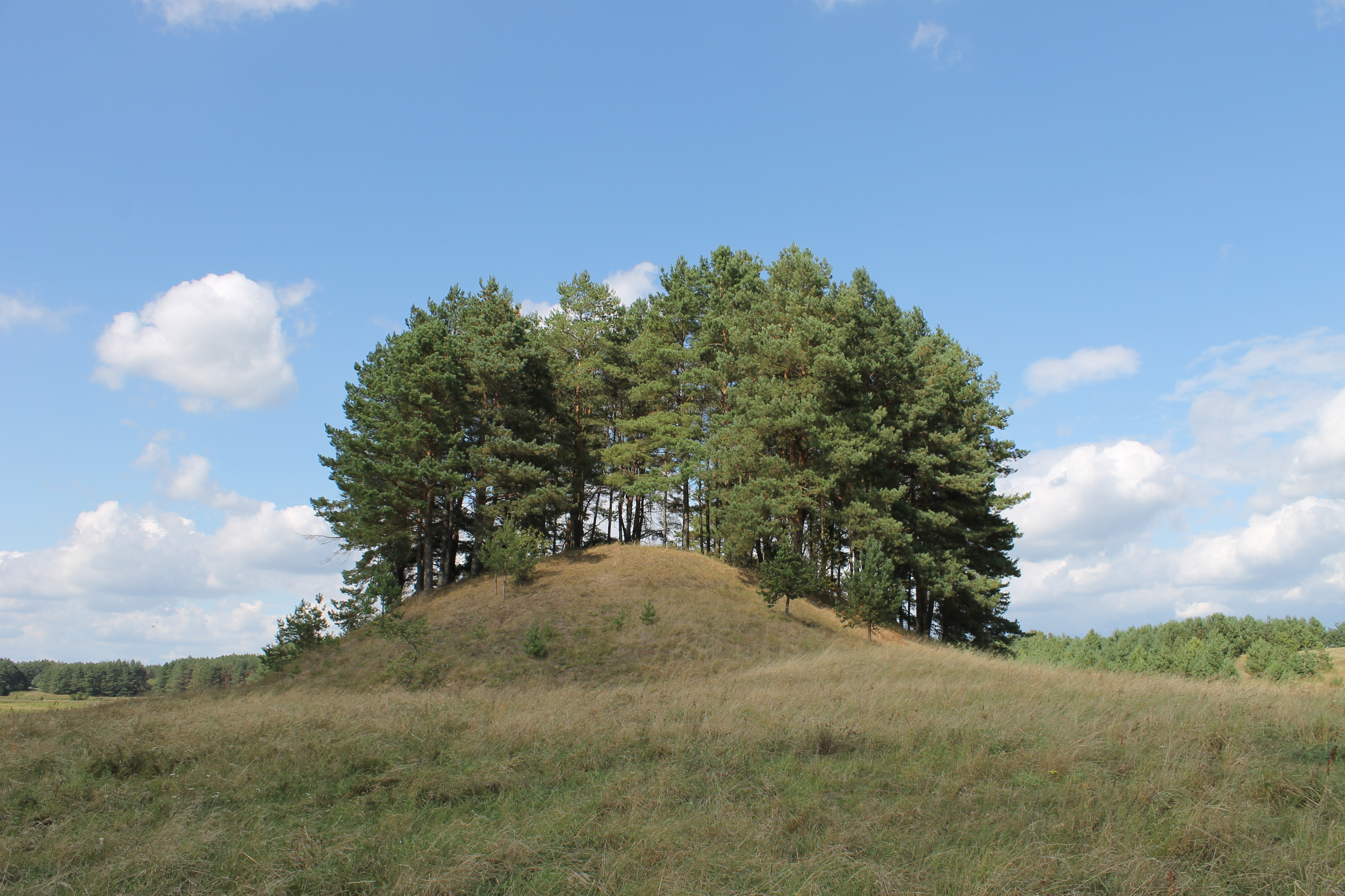 Černiauskai Hillfort, Druskininkai municipality, LithuaniaLietuvių: Černiauskų piliakalnis, Druskininkų savivaldybė, Lietuva